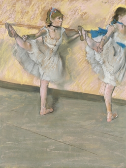 Danseuses à la barre - Signed 'Degas' (upper right) pastel, gouache and charcoal on paper 25 7/8 x 19 7/8 in. (65.8 x 50.7 cm) .